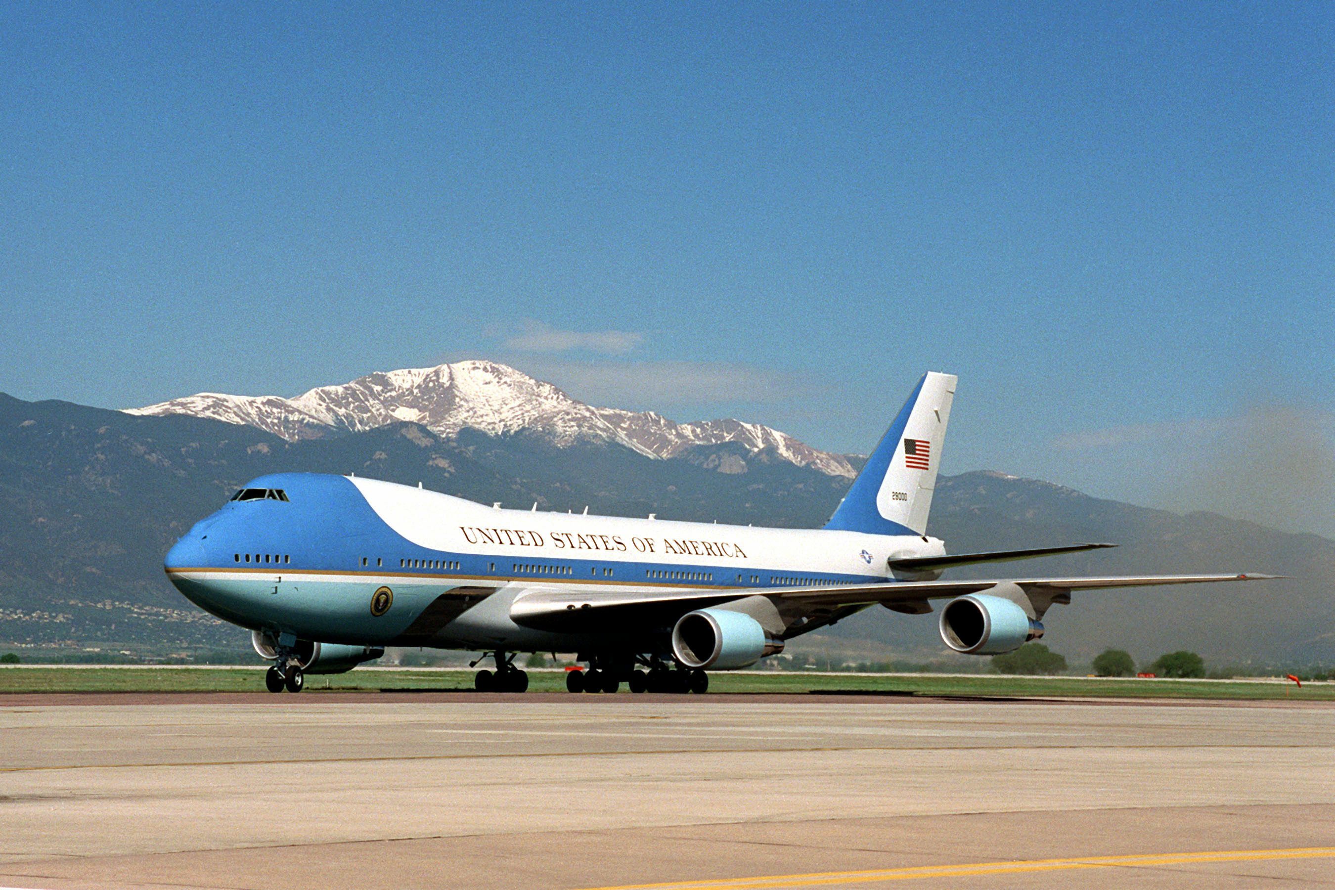 President William Jefferson Clinton is aboard Air Force One (VC-25A) after landing at Peterson AFB, Colorado, USA, with Pikes Peak in the background.